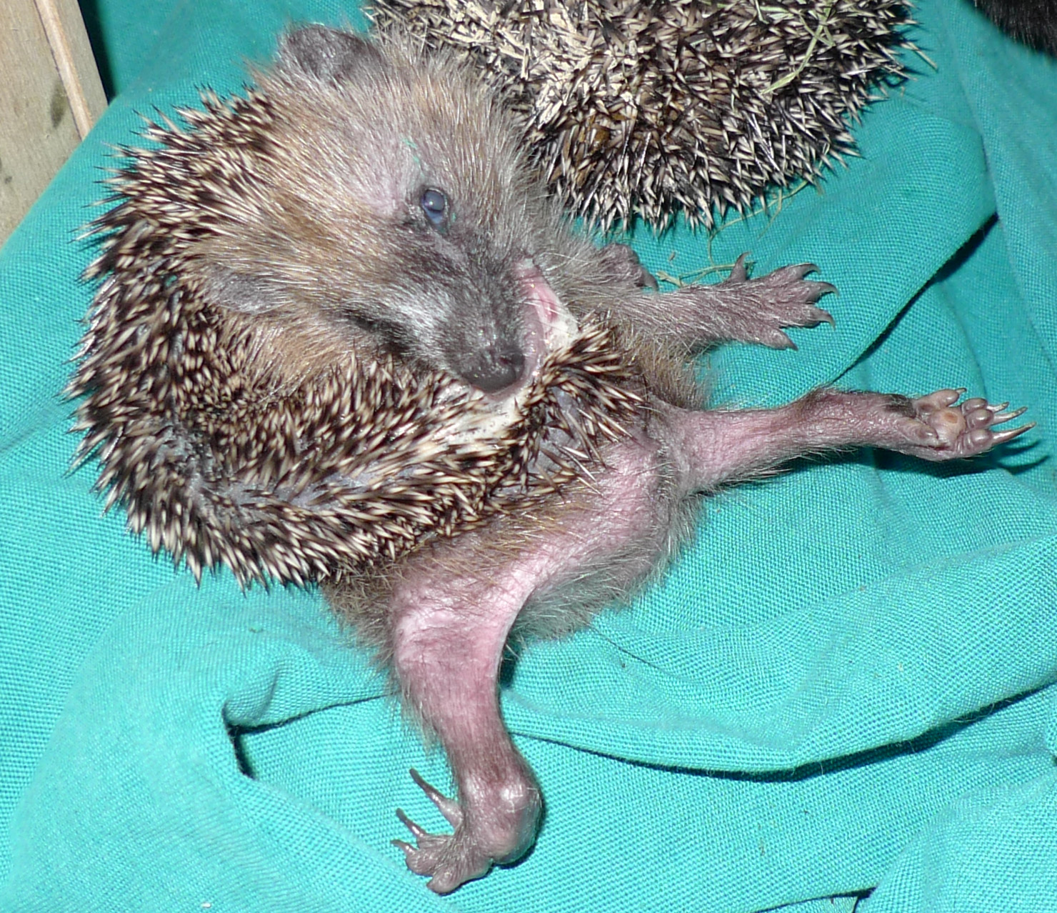 Self-anointing in a rescued juvenile male European hedgehog. Licking the quills of the unfamiliar hedgehog (visible in the back) stimulated copious production of frothy saliva. In this photo the hedgehog is seen placing this saliva on his own back.